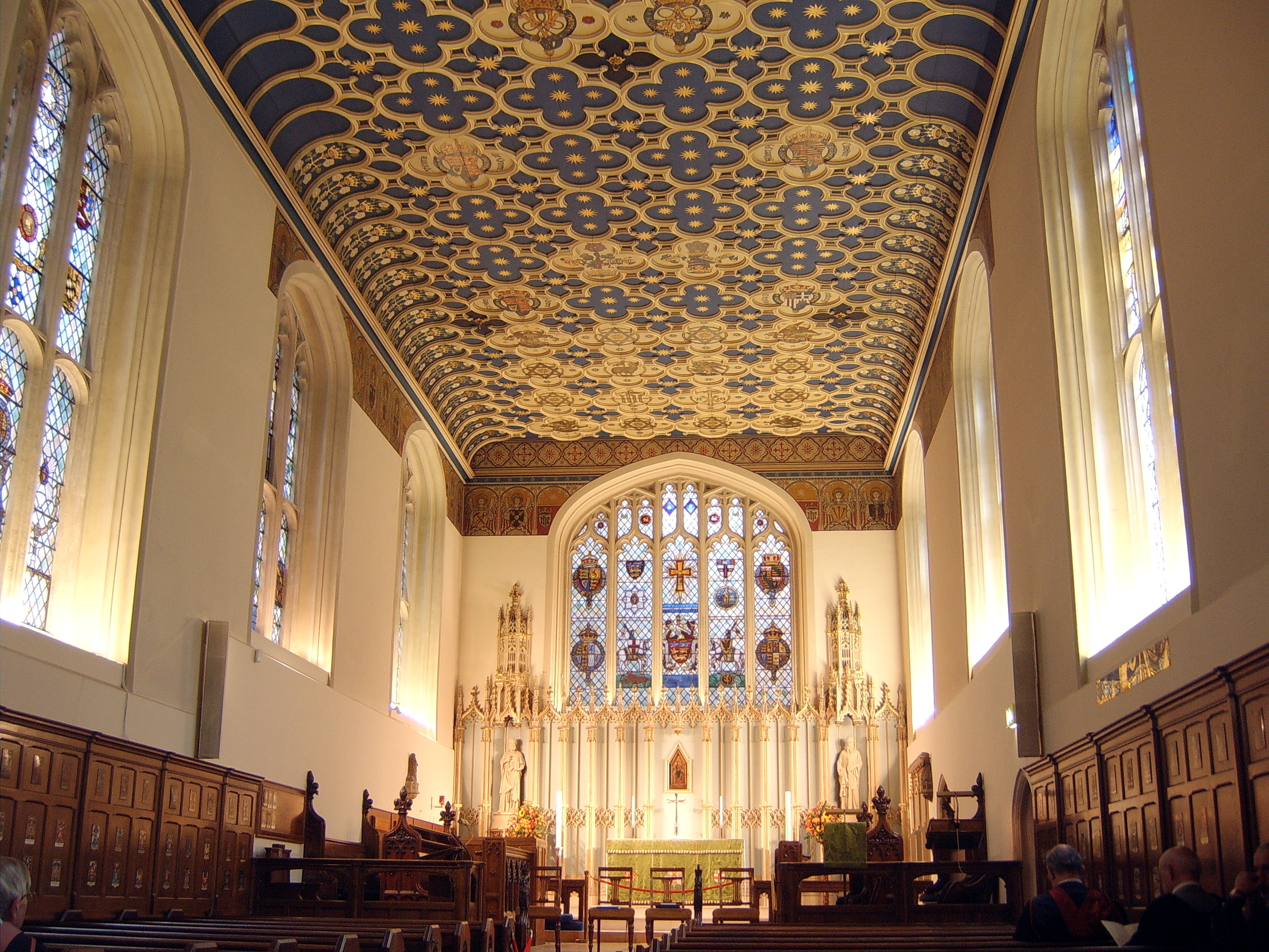 The Queen's Chapel of the Savoy, London.